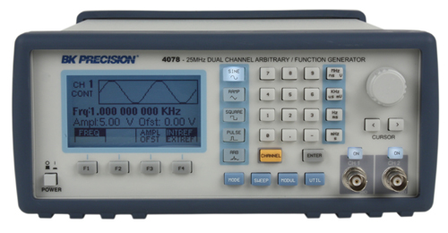 Source: B&K Precision Corporation URL